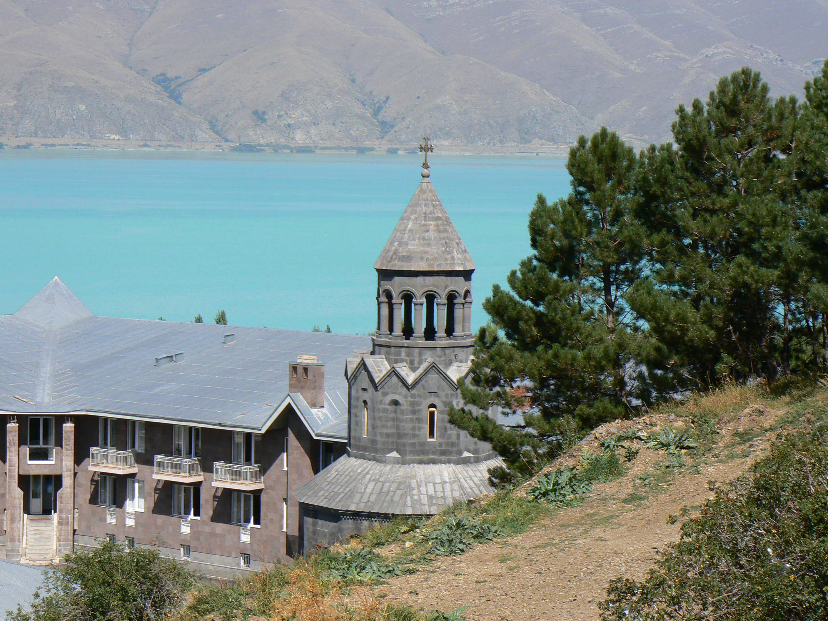 St. Hakob (James) Church of Vaskenian Theological Academy (architect Baghdasar Arzoumanian)